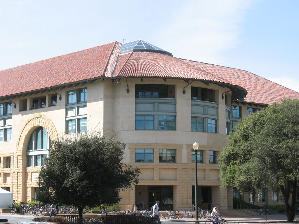 View of the William Gates Computer Science Building at Stanford University.